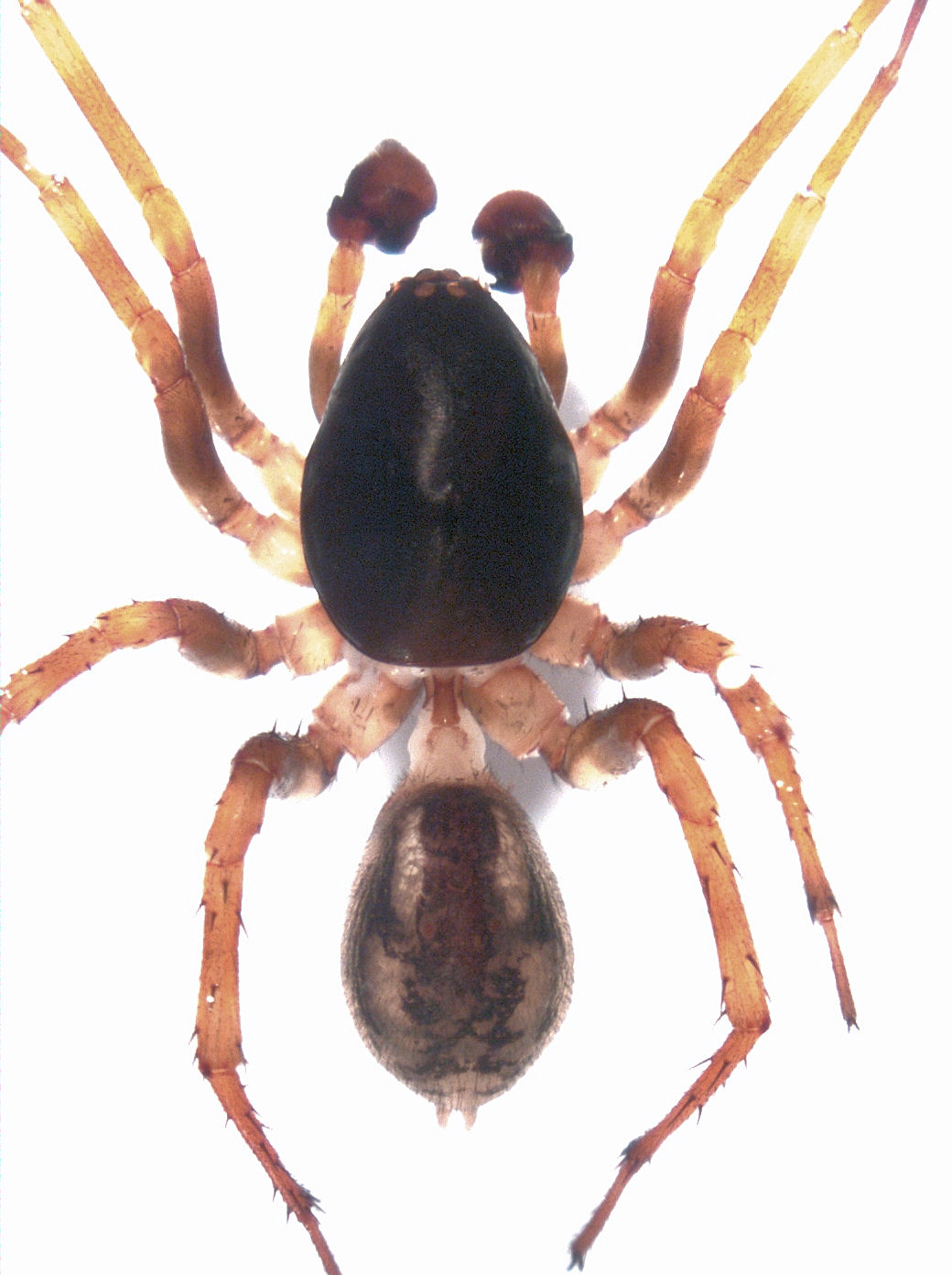 adult male Forsterella faceta